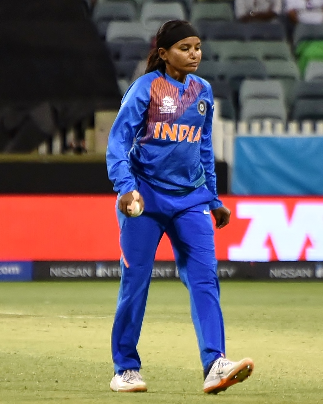 Rajeshwari Gayakwad walking back to her mark while bowling for India against Bangladesh during their 2020 ICC Women's T20 World Cup match at the WACA Ground in Perth, Australia